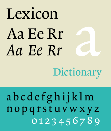 Specimen of the typeface Lexicon by Bram de Does.